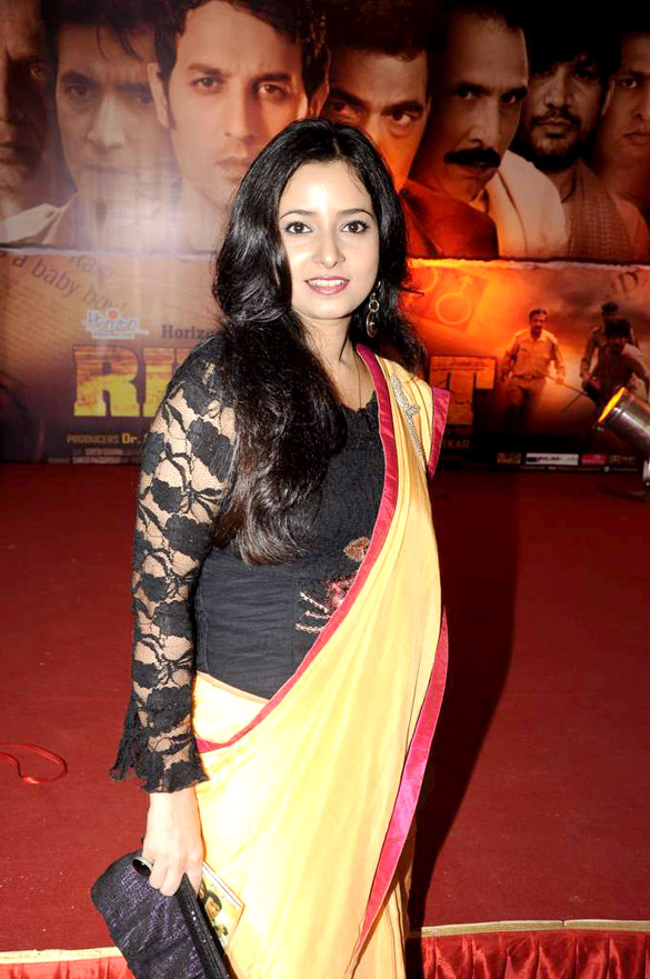 Image of Samapika Debnath